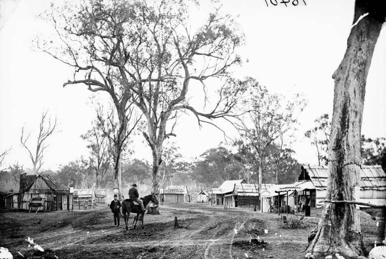 Streetscape of Canadian Lead, New South Wales, a mining town.